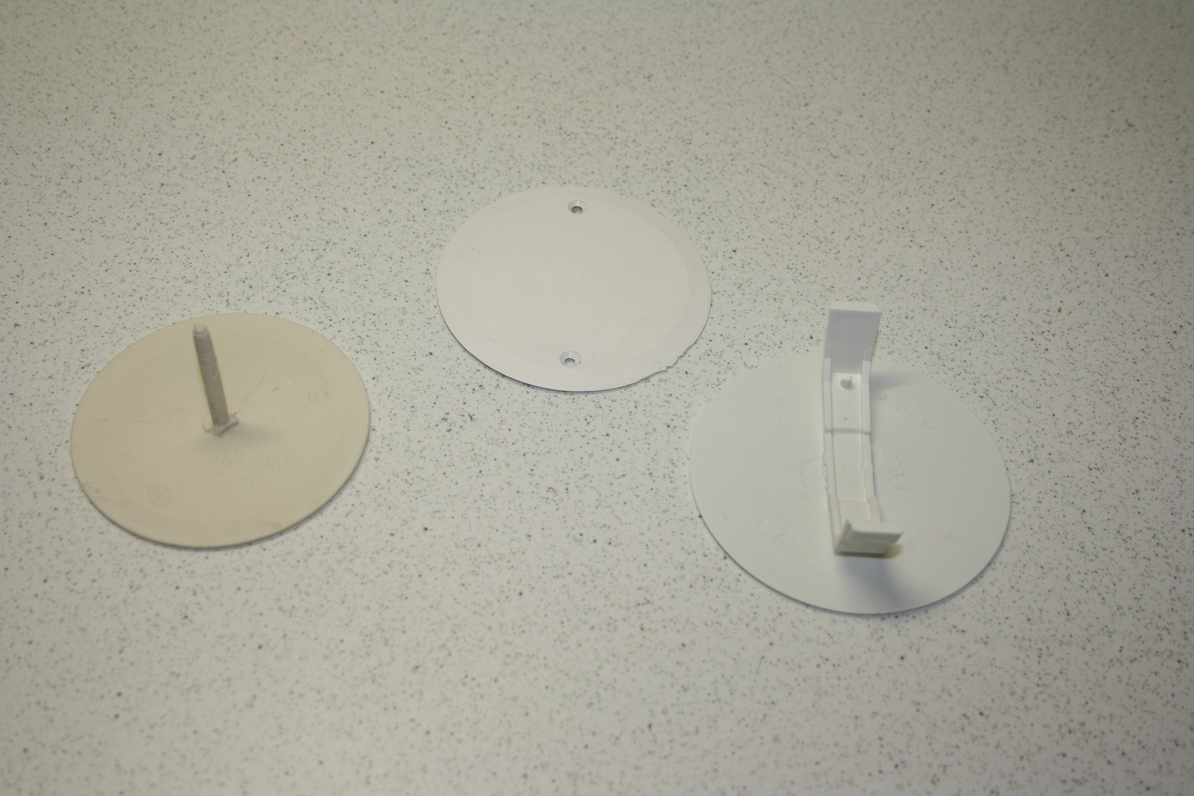 Electrical instalation box - cover